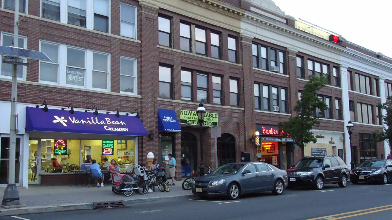 Stores along a street in the downtown area of Cranford, New Jersey.